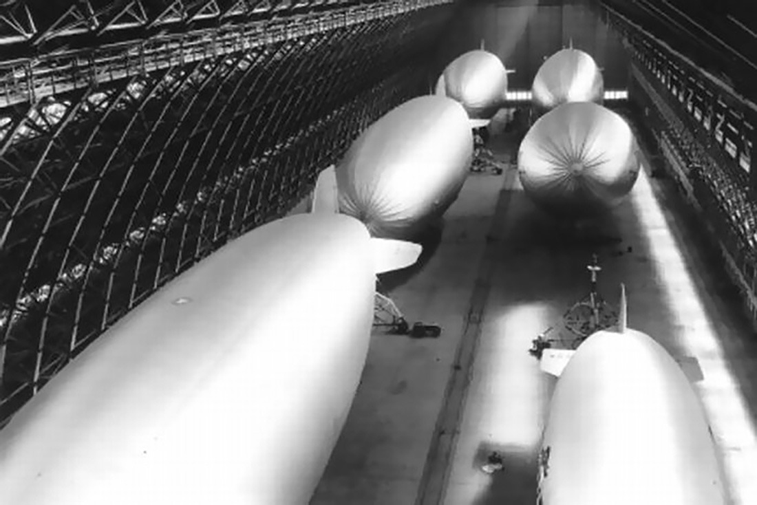 An inside view of several airships inside one of the massive blimp hangars at the former Marine Corps Air Station in Tustin, CA. Source: USMCAS Tustin archives.The structures appear in the National Register of Historic Places as #NPS-#75000451.